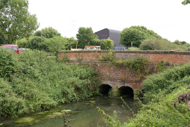 Aqueduct over Beverley and Barmston Drain, Beverley, East Riding of Yorkshire, England.I'm not sure if this an aqueduct over the Drain or a tunnel under the Beck, but either way it's an exemplar of hydrological engineering. The Beverley and Barmston Drain runs roughly parallel with the Hull from Tophill Low weir until it debouches back into the Hull near its mouth. At the point photographed it has just finished running past Swinemoor, where it is a regular haunt for Kingfishers.